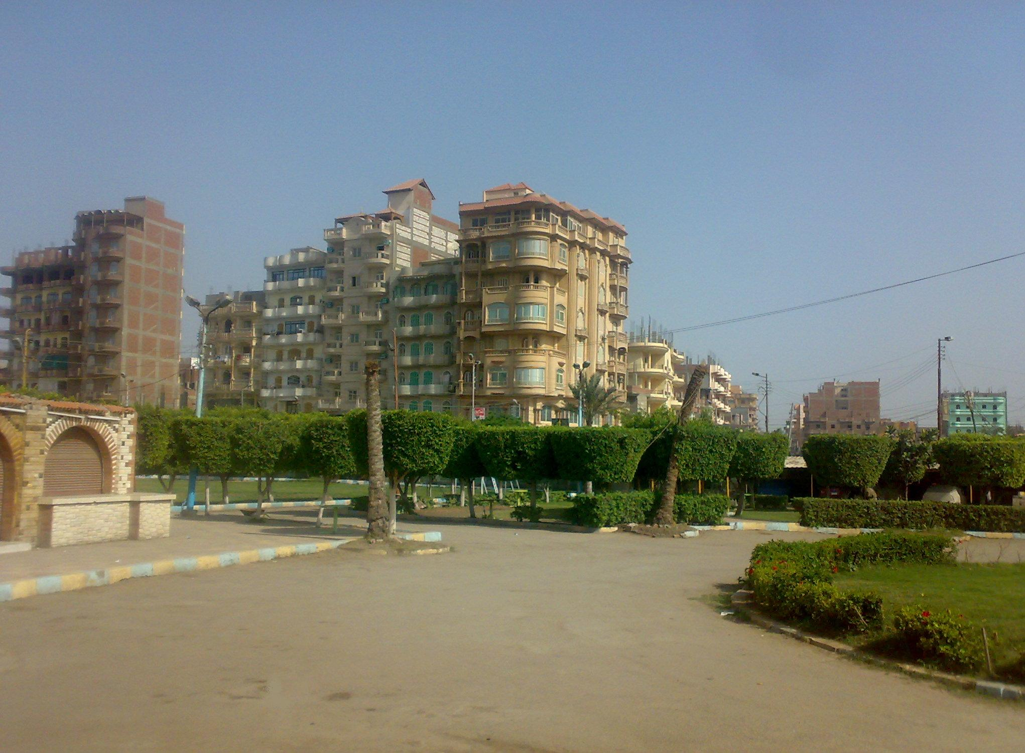 El-Safa Garden, Desouk